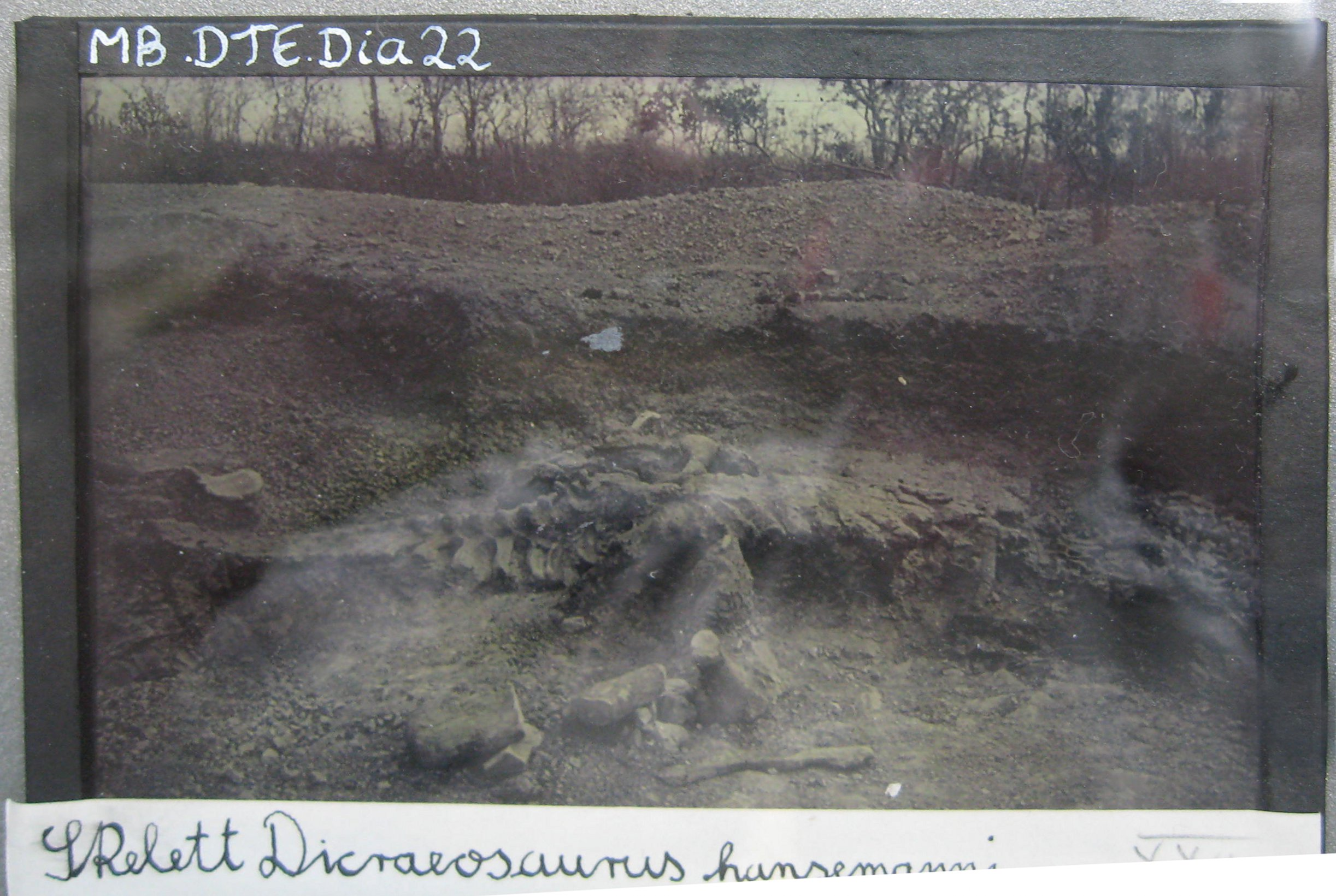 Tendaguru expedition: skeleton of Dicraeosaurus hansemanni